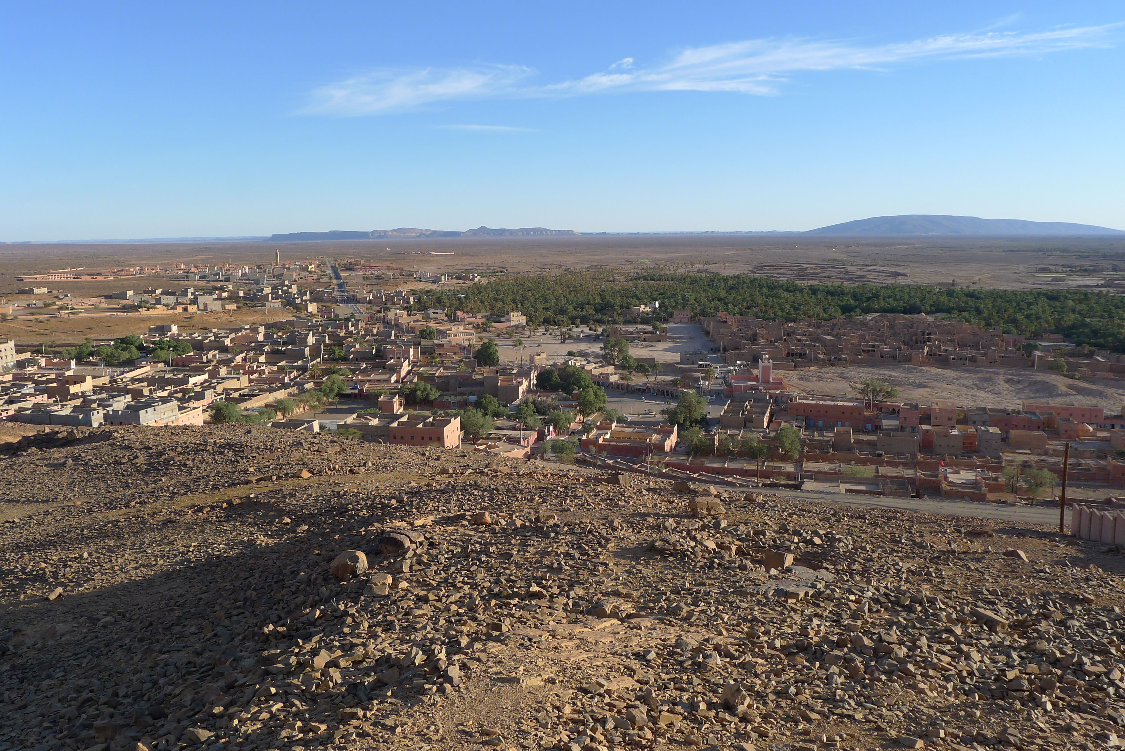 Foum Zguid oasis